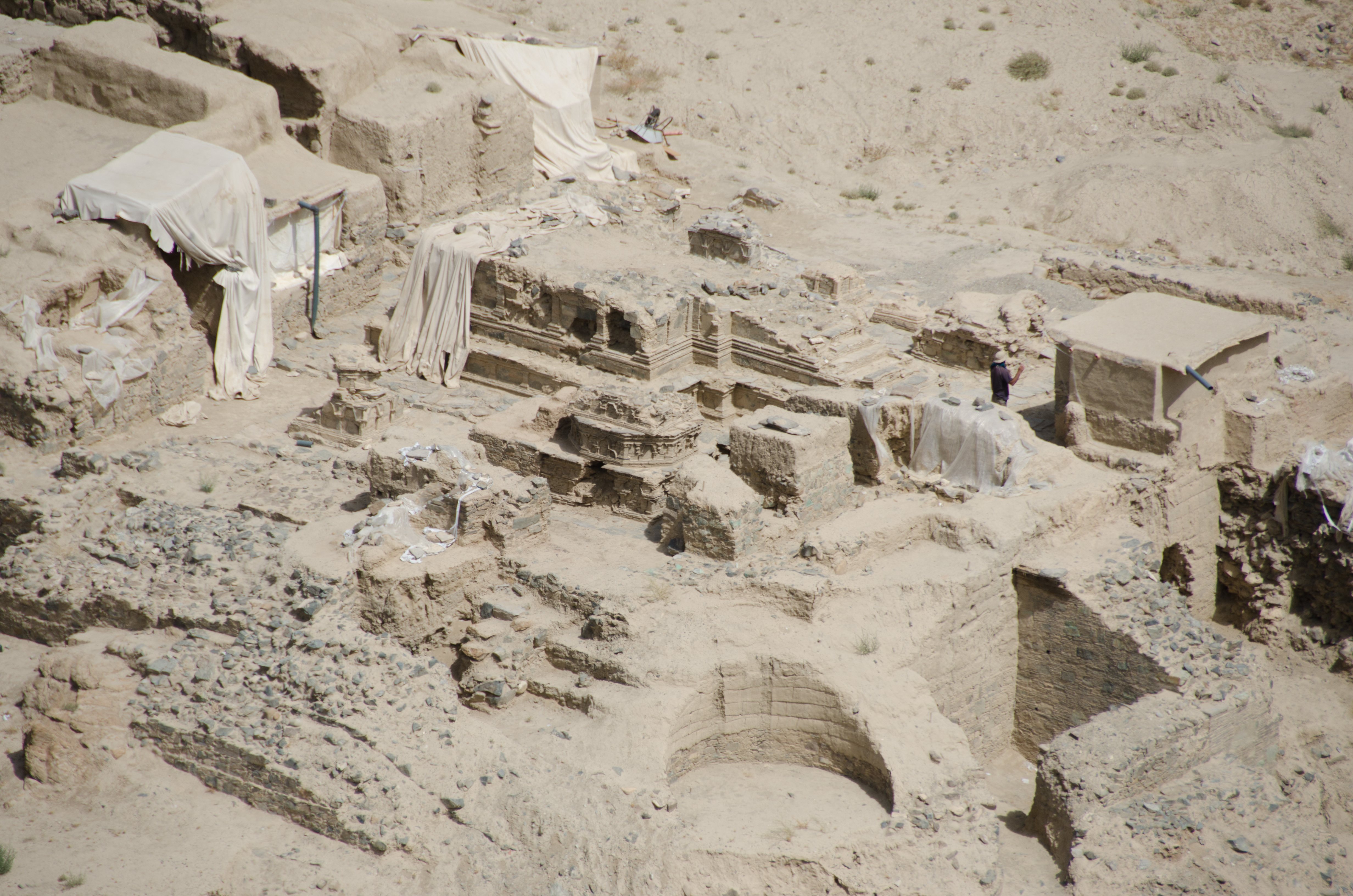 Mes Aynak site, Logar Province, Afghanistan.